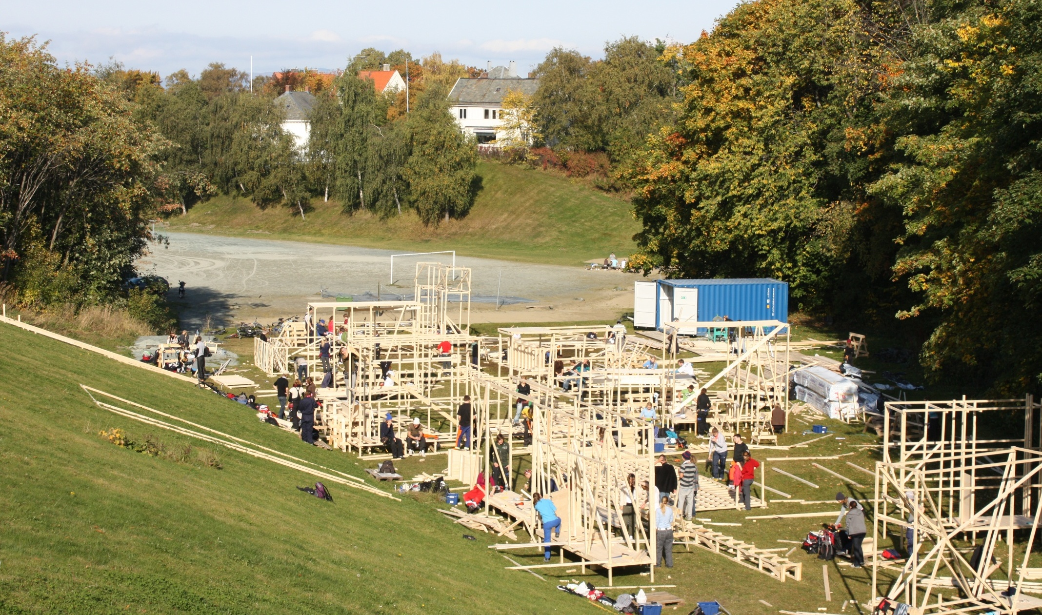 First year architecture students at Norwegian University of Science and Technology (NTNU) Trondheim building their first full-scale assignment.